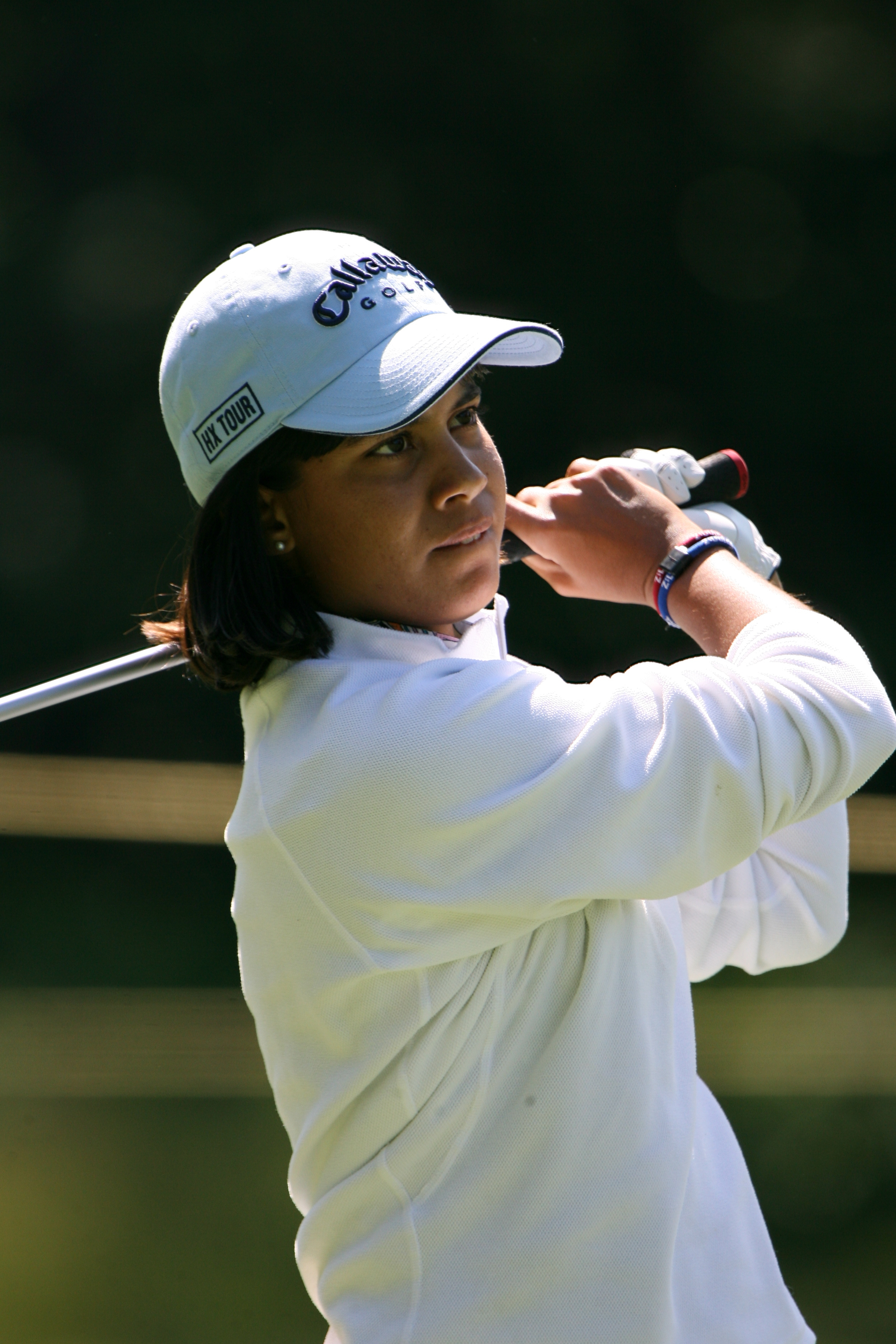 HAVRE DE GRACE, MD - JUNE 06: Julieta Granada of Paraguay during practice before 2007 LPGA Championship held at Bulle Rock Golf Course, on June 6, 2007 in Havre de Grace, Maryland. (Photo by Keith Allison)